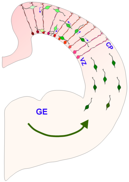 Interneurons (green) migrating into the cerebral wall from the ganglionic eminence(GE) interact with radial glia (red) and can exhibit changes in direction of migration after contacting radial glia. Interneurons can use radial glia as a scaffold upon which to migrate as they ascend to the cortical plate (CP) or descend in the direction of the ventricular zone (VZ). Particular orientation and morphological dynamics of migration may be associated with particular subsets of interneurons. Once the interneurons invade the cortex from the ganglionic eminence, differential interactions between interneurons and radial glial scaffold and localized multidirectional migration of interneurons influenced by local guidance cues may facilitate interneuronal positioning within distinct domains of the developing cerebral cortex. Potential differences among interneurons and radial glia are indicated by shades of green and red, respectively. Putative local guidance cues are indicated by a gradient of pink. Blue arrows indicate direction of migration.